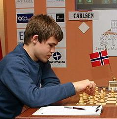 Magnus Øen Carlsen Linares 2007